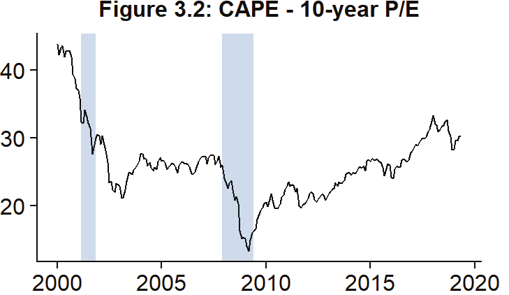 "S&P 500 index relative to its 10-year moving average of earnings, the so-called “Shiller P/E” or cyclically adjusted price-to-earnings ratio (CAPE). In line with asset values, equity valuations consistently climbed following the Great Recession, suggesting expectations of continued growth; but the climb might also be partially due to declining interest rate expectations. Interestingly, the 10-year P/E ratio remains well below its early 2000s highs."